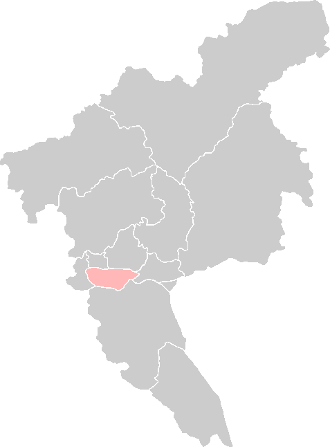 A Blank Map of Guangzhou Map